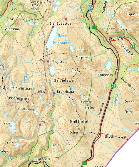 The map shows the original five telegraph cabins on Saltfjellet. Saltdal and Rana, Nordland, Norway.